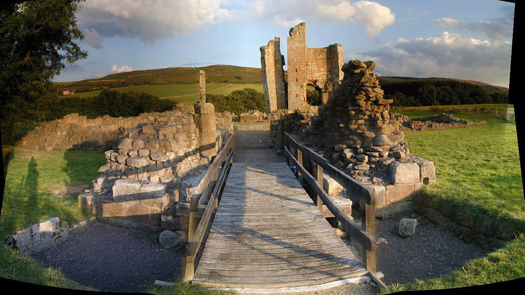 View of Edlingham Castle, Northumberland, U.K., with Wide Hope hills and woods behind. A composite of 6 shots taken on 3 September 2005.